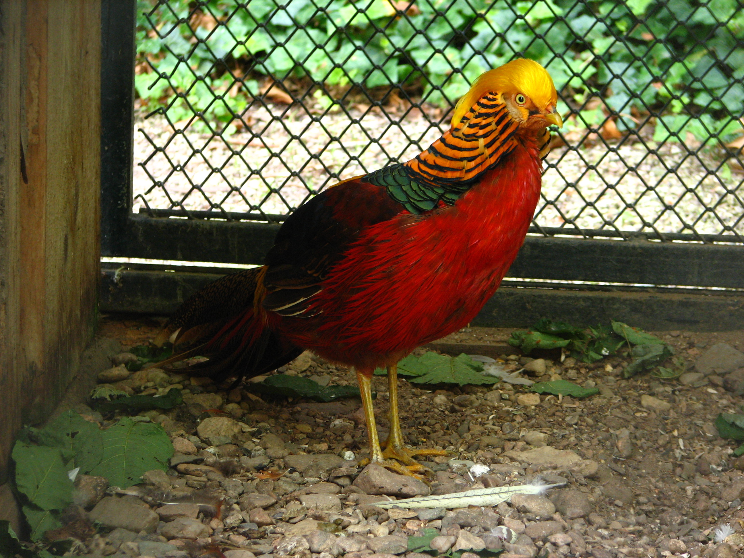 Golden Pheasant, Častolovice castle, Czech Republic